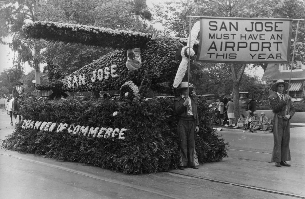 May 18, 1929 - Frank J. Steiner (photographer). Fiesta de las Rosas Parade. Photographic Album, 1929Sponsored by the San Jose Chamber of Commerce, this float is an airplane made of green shrubs more than 20 feet long and a wing span of 19 feet. On the side of the fusilage is the name "San Jose" in white flowers. The fusilage was finished with sweet williams. Green huckleberry was used in decorating the wings. A propeller made of flowers was kept in constant motion. Two men standing on the street in front of the float hold a banner which says "San Jose must have an airport this year." A boy sits in the pilot seat looking out. There is a house and spectators in the background.